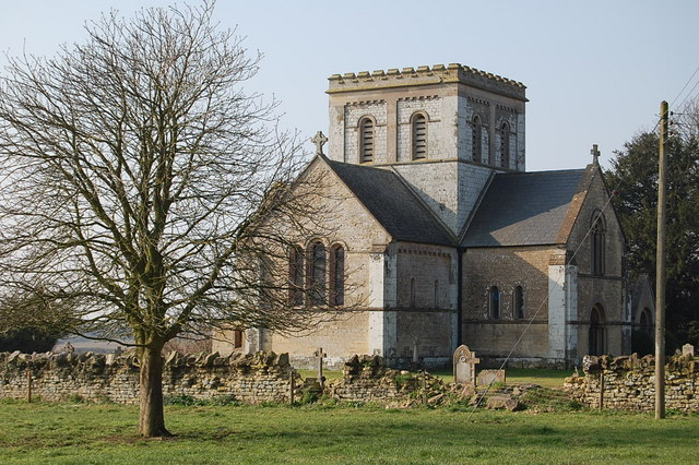 Christ Church parish church, East Stour, Dorset, seen from the northeast